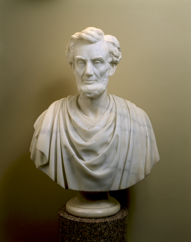 Abraham Lincoln by Sarah Fisher Clampitt Ames (1817 - 1901) Marble, 1868